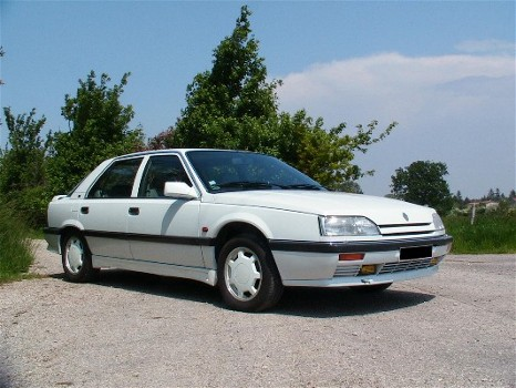 Renault 25 Olympique